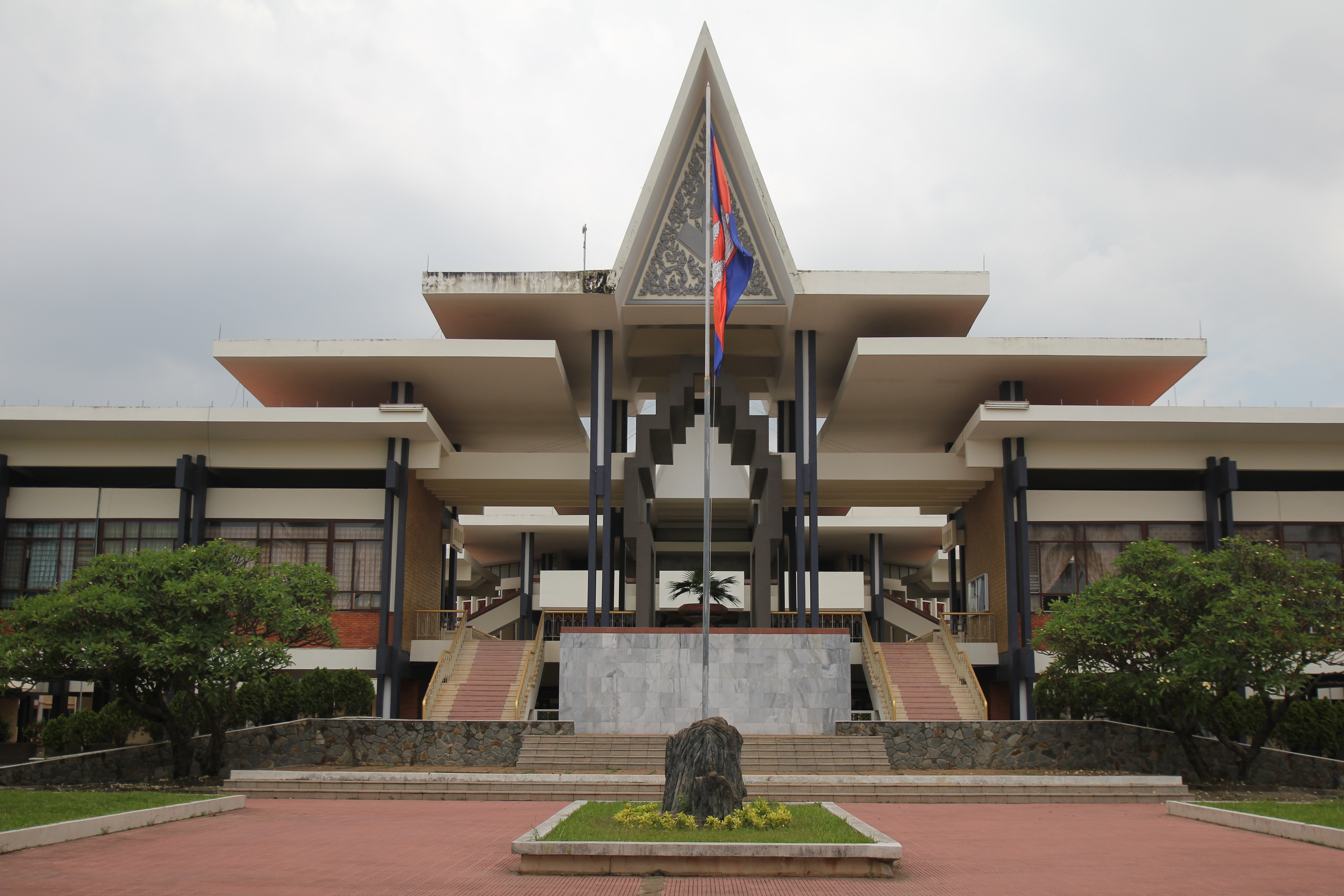 There is another campus of RUPP.